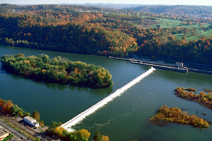 Part of Allegheny Islands State Park and the C.W. Bill Young Lock and Dam (Lock and Dam #3) on the Allegheny River, Allegheny County, Pennsylvania, United States.